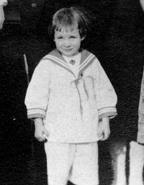 The Clarence E. Hemingway family, Oak Park, Illinois, ca. 1917. L-R: Dr. C. E. Hemingway, Carol, Grace Hall Hemingway, Ernest, Leicester, Ursula, Sunny, Marcelline.